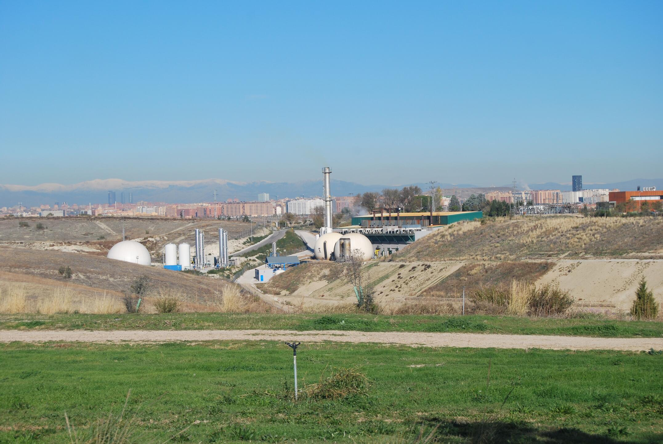 Valdemingómez biogas landfill facility (parque de xestión de residuos de Valdemingómez)